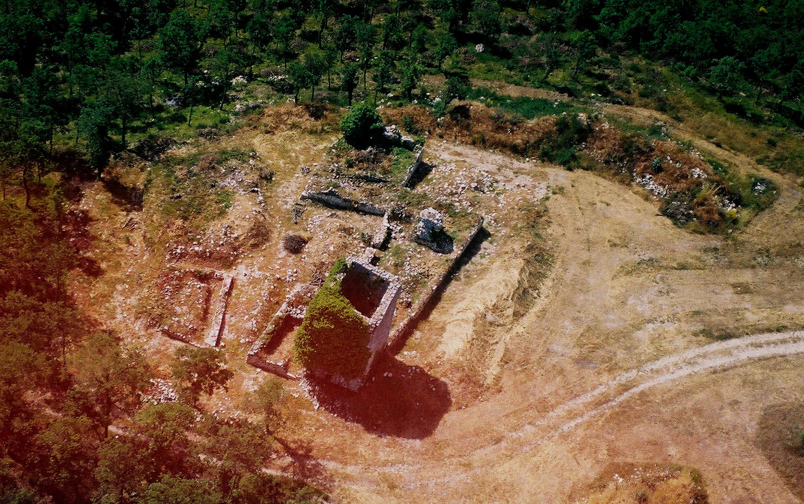 Ruins of the Castrum Ilionis from the air. Archaeological area